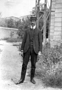 Kiriakos Tavoularis